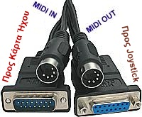 Midi cable